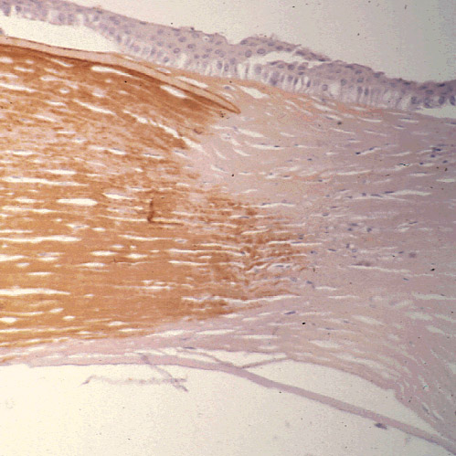 Macular corneal dystrophy. Light microscopic view of a corneal graft in a patient with MCD type I (left side of image) showing a normal brown reactivity of the corneal stroma to the anti-keratan sulfate antibody. The host tissue with MCD type I (right side of image) does not stain. Immunoperoxidase stain with antikeratan sulfate antibody. Klintworth Orphanet Journal of Rare Diseases 2009 4:7